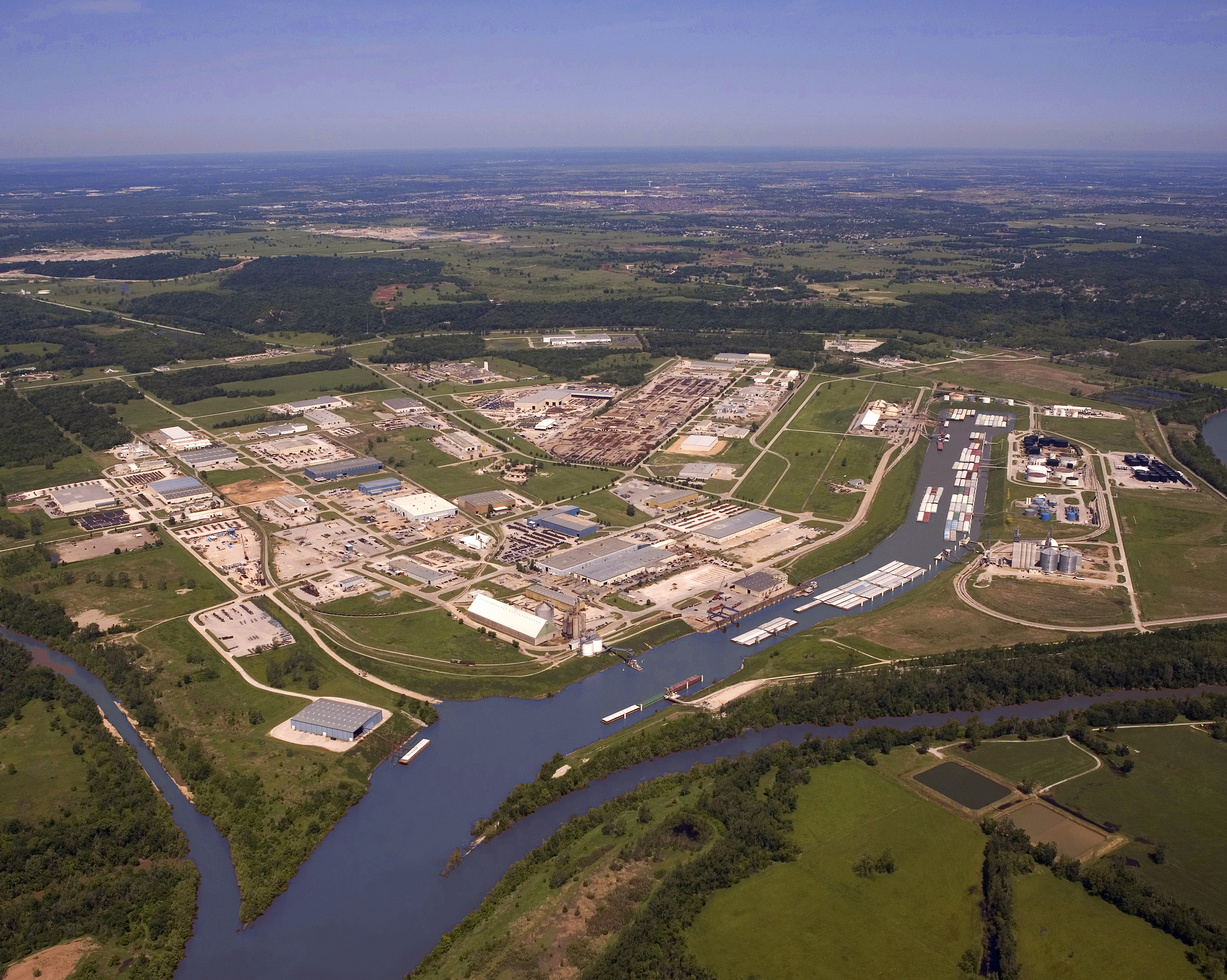 This photo shows the main port facility at the convergence of Bird Creek (left) and the Verdigris River (right). Owasso, OK is barely visible in the background. Photo is taken looking Northeast.